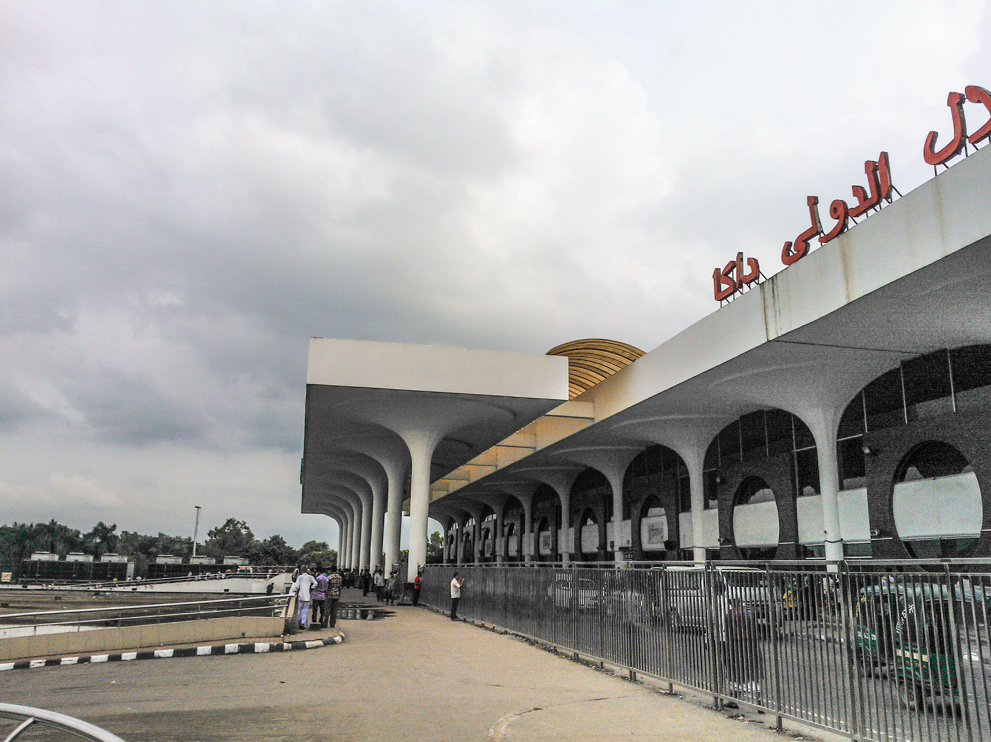 Shahjalal International Airport, Dhaka.